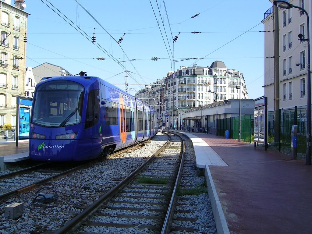 Livry-Gargan Gare de Gargan et tram-train Photo personnelle (own work) de Marianna